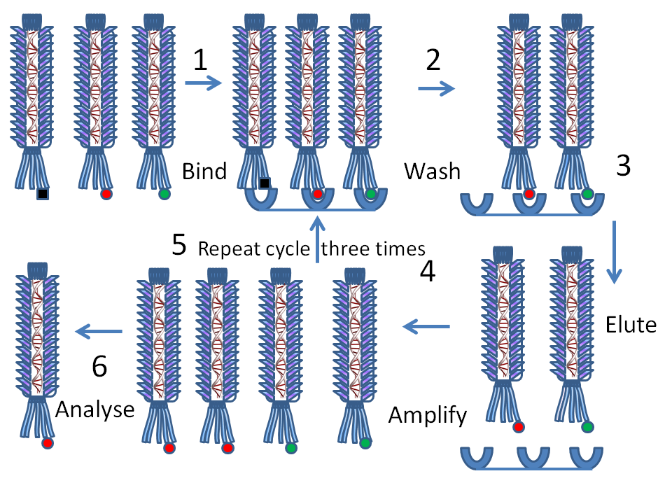 The sequence of events that are followed in phage display screening to identify polypeptides that bind with high affinity to desired target protein or DNA sequence.